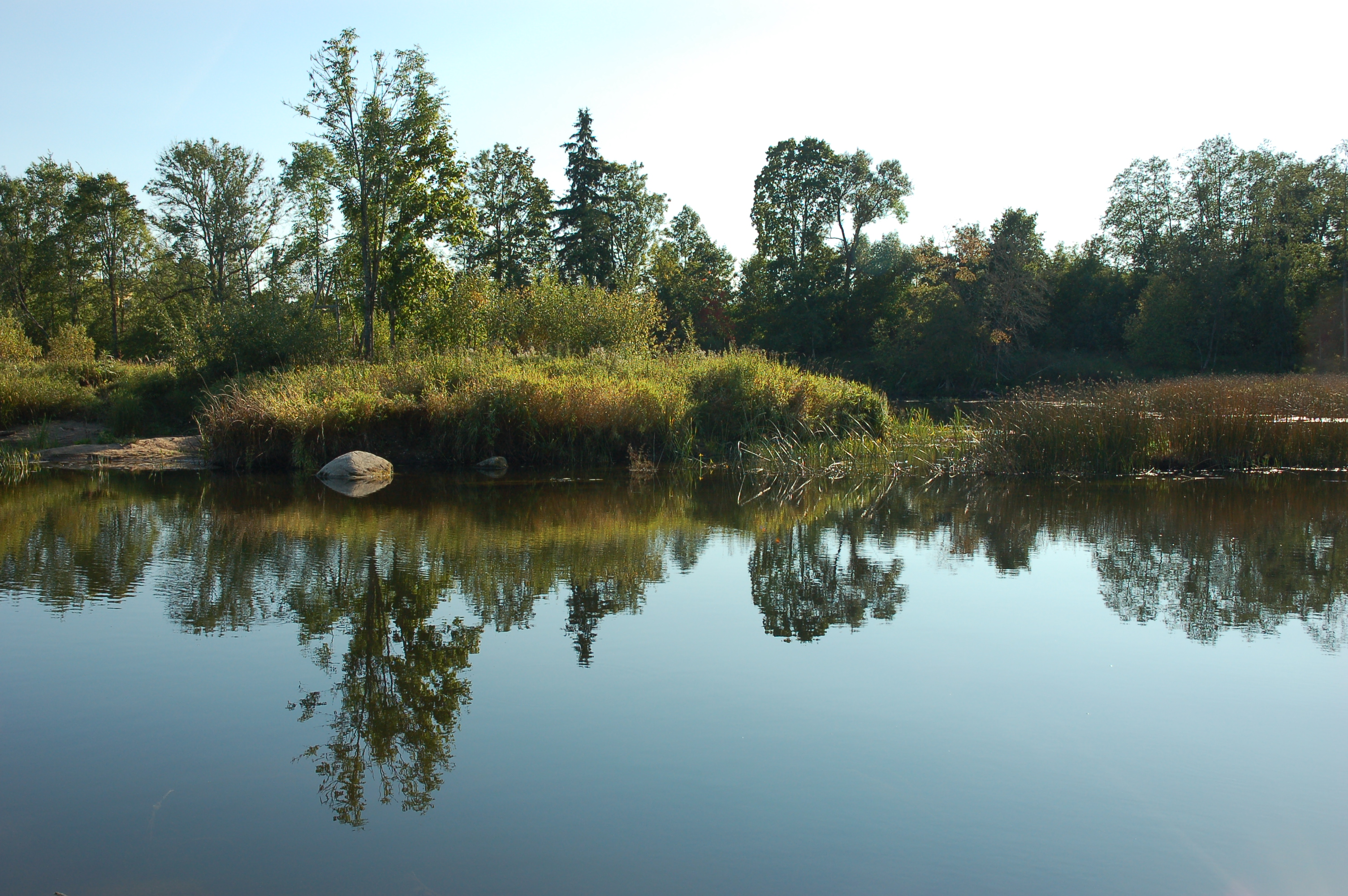 Iiesaar, 'sacred grove island' in Tori Parish, Pärnumaa, EstoniaEesti: Looduslik pühapaik Iiesaar Tori kihelkonnas Pärnumaal